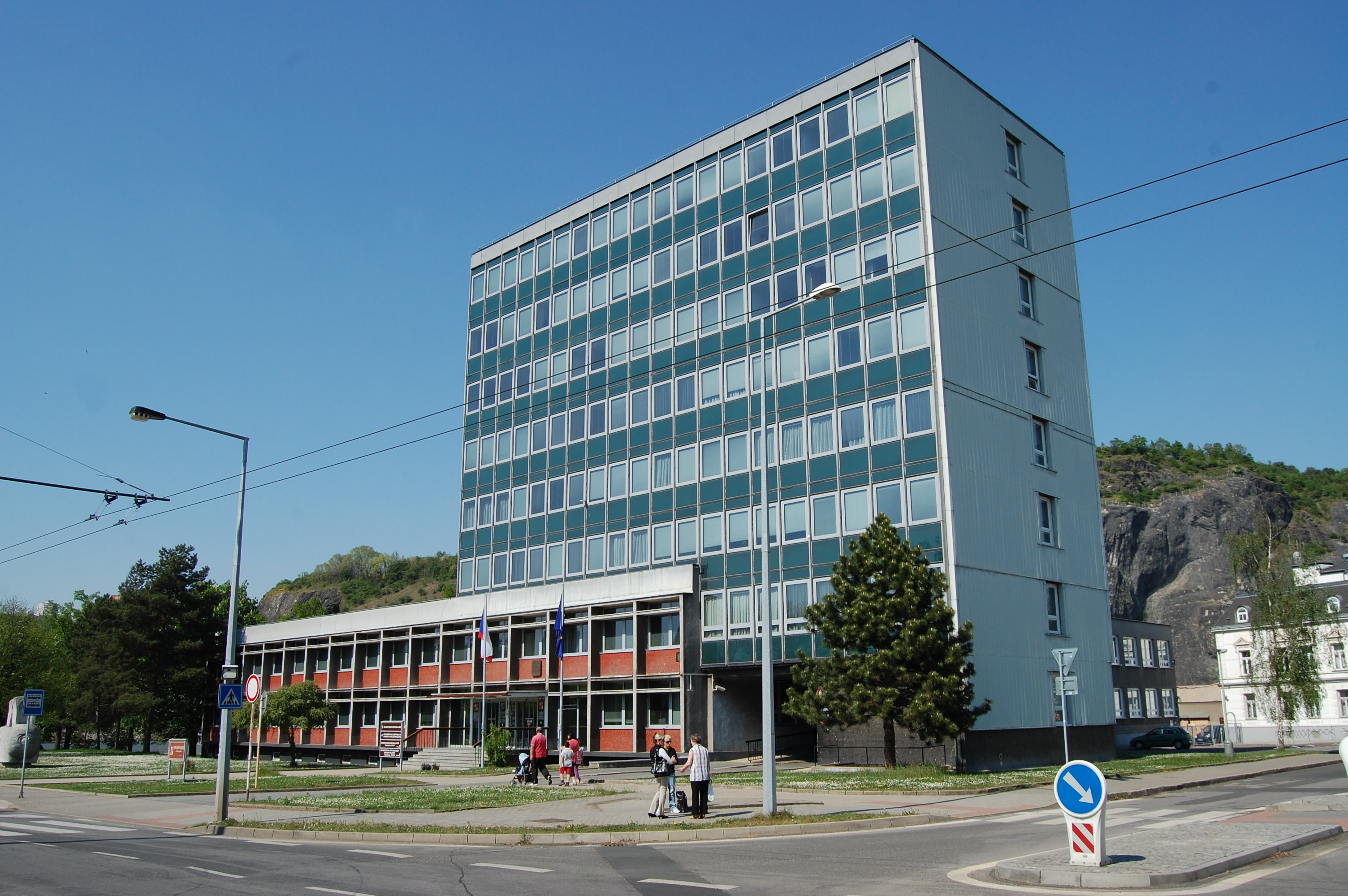 Ústí nad Labem Region Courthouse